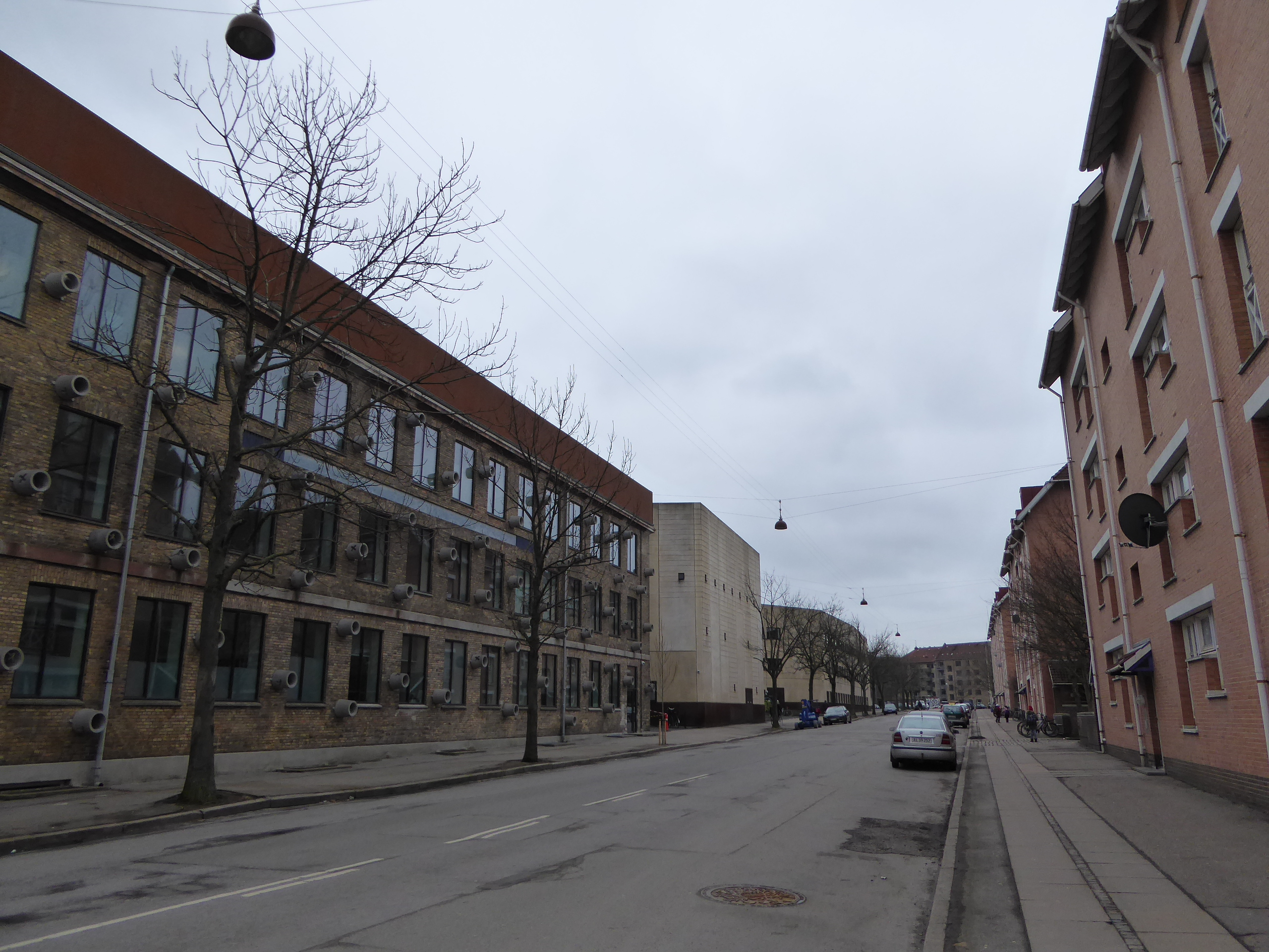 The street Titangade in Nørrebro in Copenhagen.